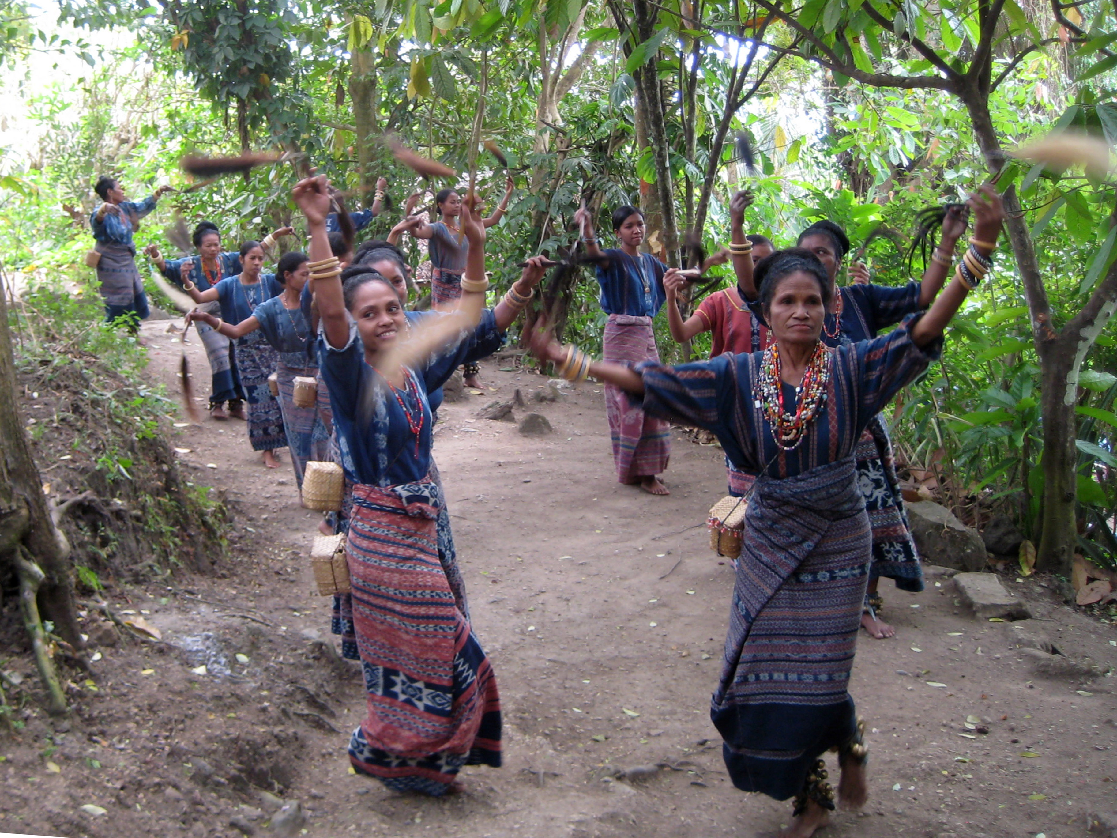 Dancers in Watublapi, Flores, in traditional costume